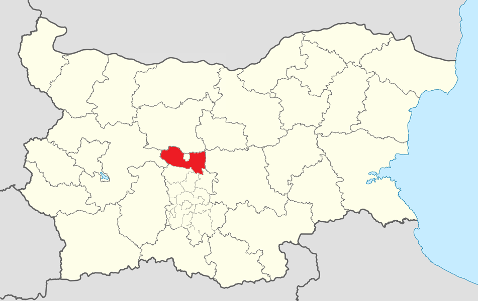 Location map of Karlovo Municipality within Bulgaria and Plovdiv province